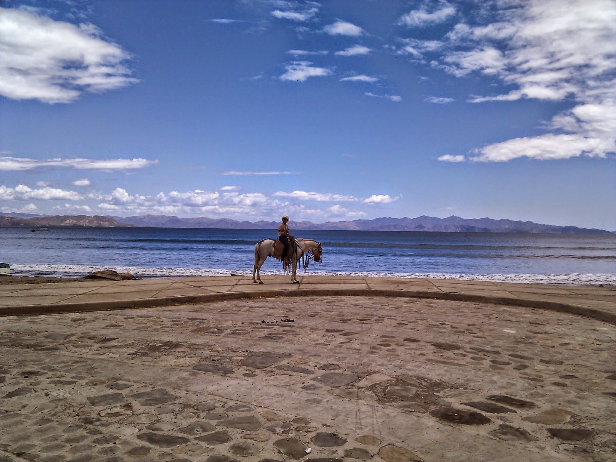 El Ostional Beach and a local on horseback.